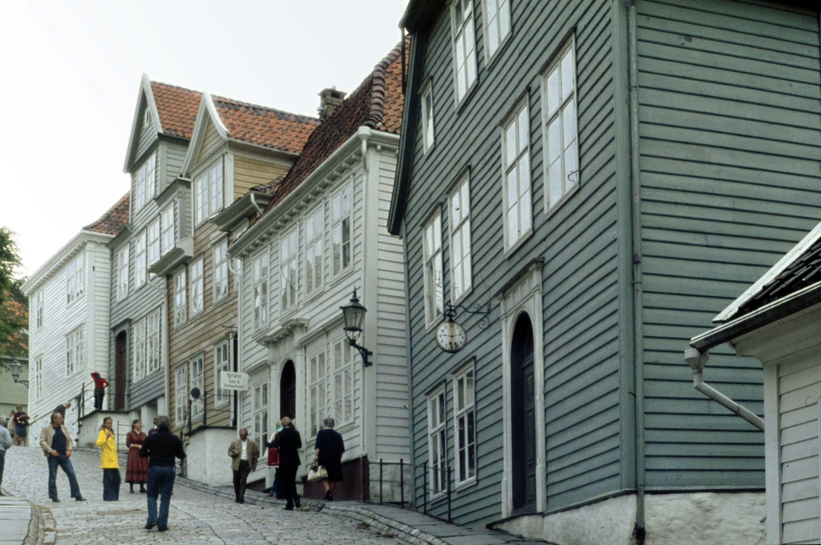 Bergen in Norway 1975